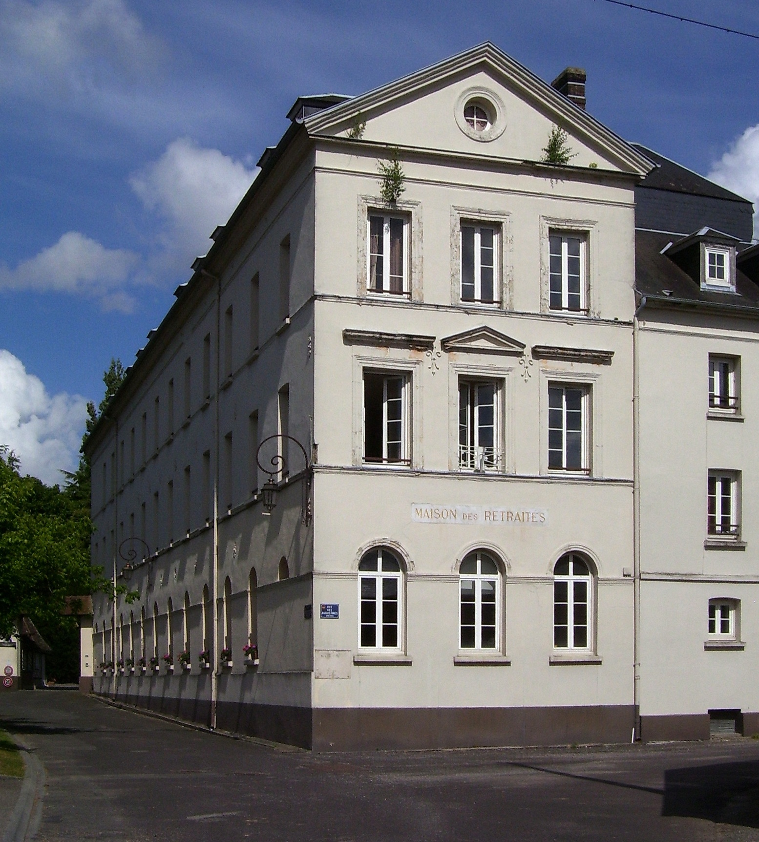 Part of the hospice of Harcourt (departement Eure, Haute-Normandie, France), it was founded in 1695 by Françoise de Brancas, Comtesse d'Harcourt, partially burned down in 1895 and is used as a retirement home nowadays.